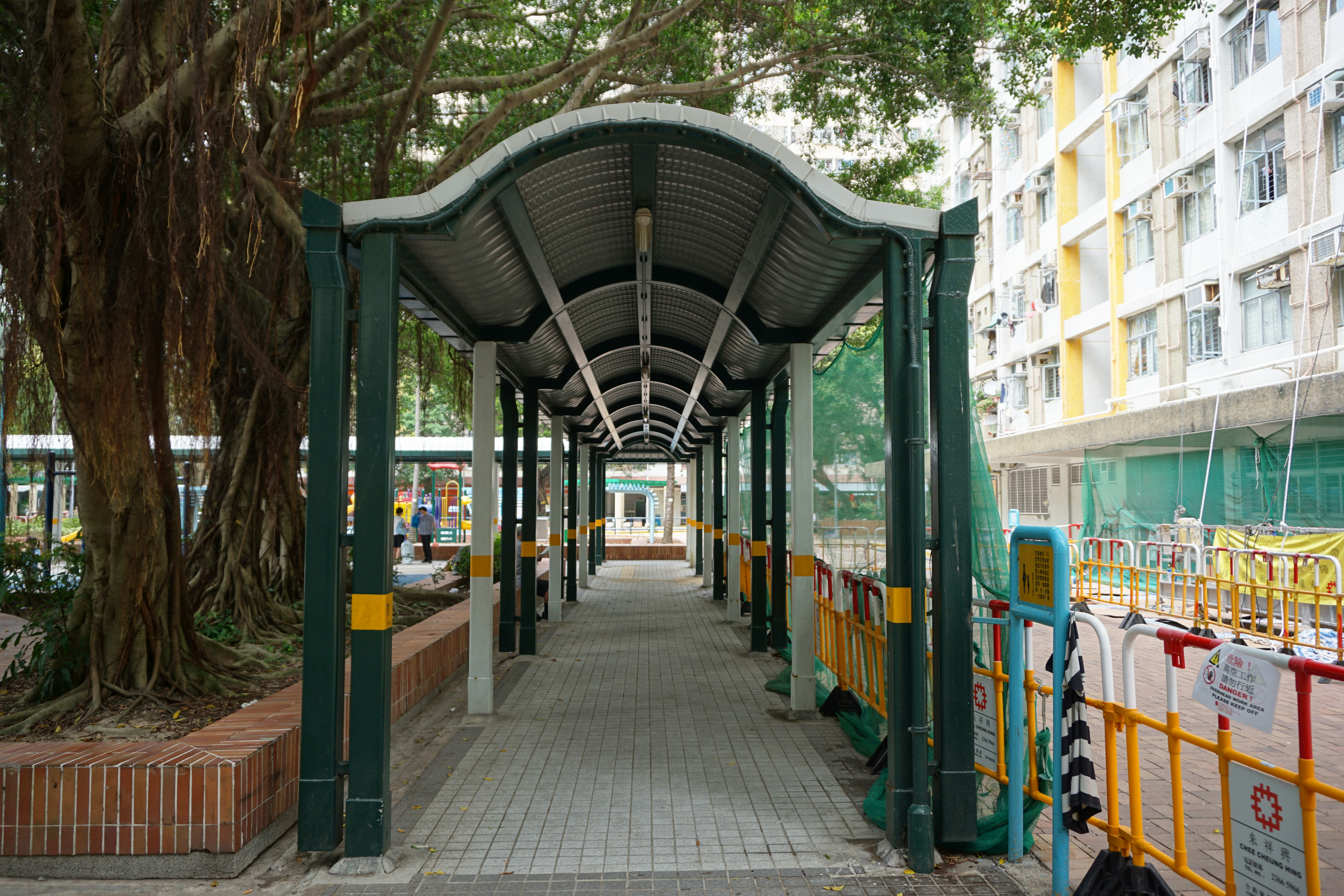 Shun Tin Estate in Sau Mau Ping, Hong Kong.